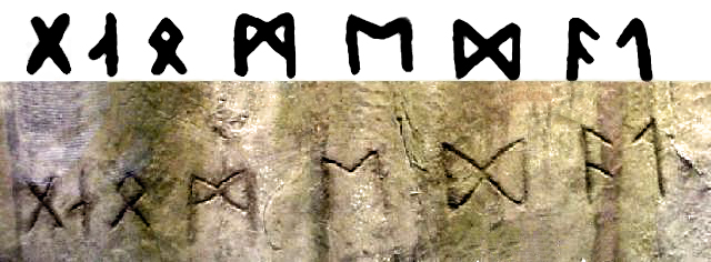 From en-wiki: A photo of the Heavener Runestone labeled with the glyphs that appear on the stone. Created by Holly Montgomery, no copyrights held.